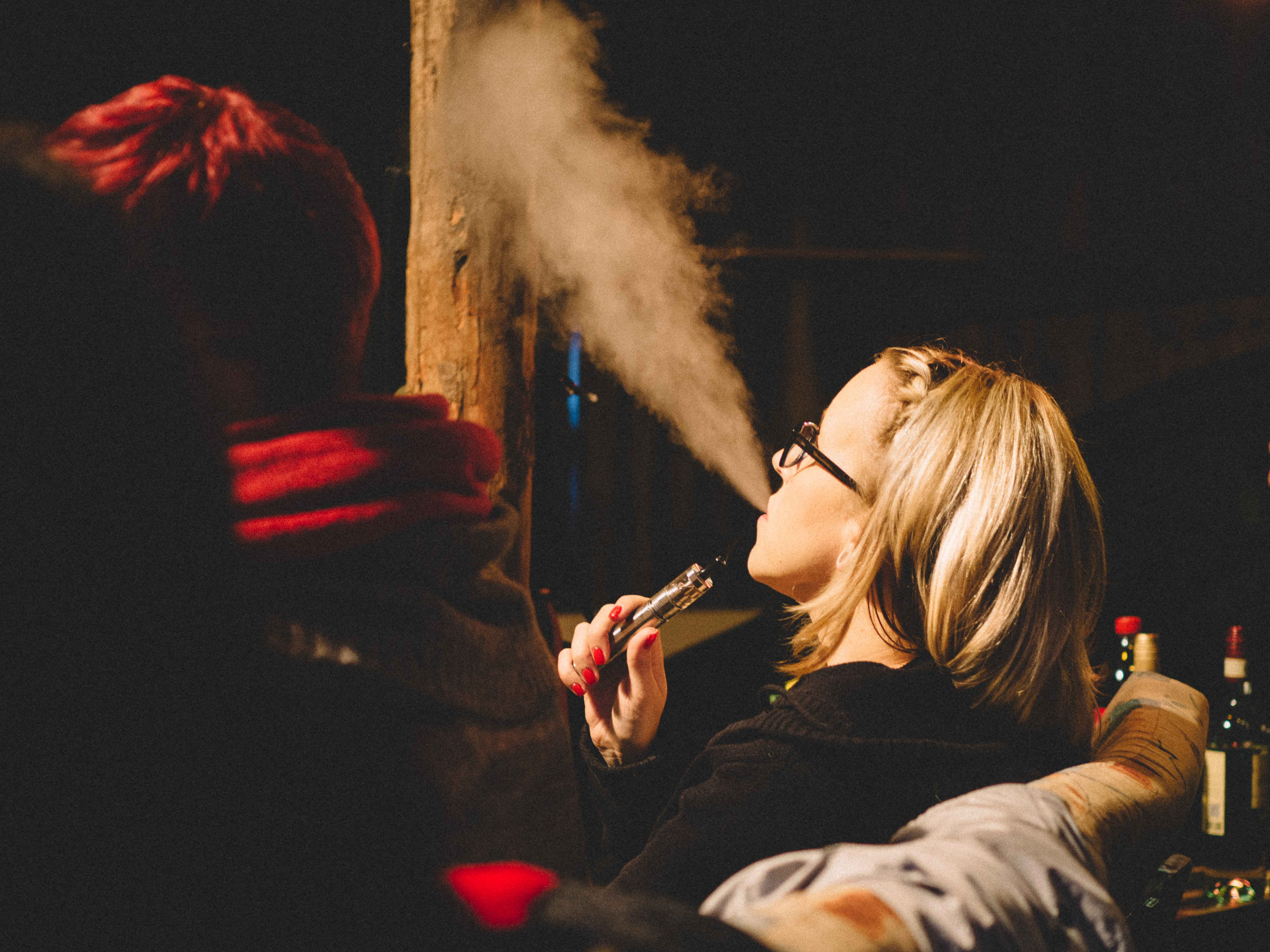 A young blonde woman blows vapor after taking a drag from an e-cigarette which she holds in her right hand.